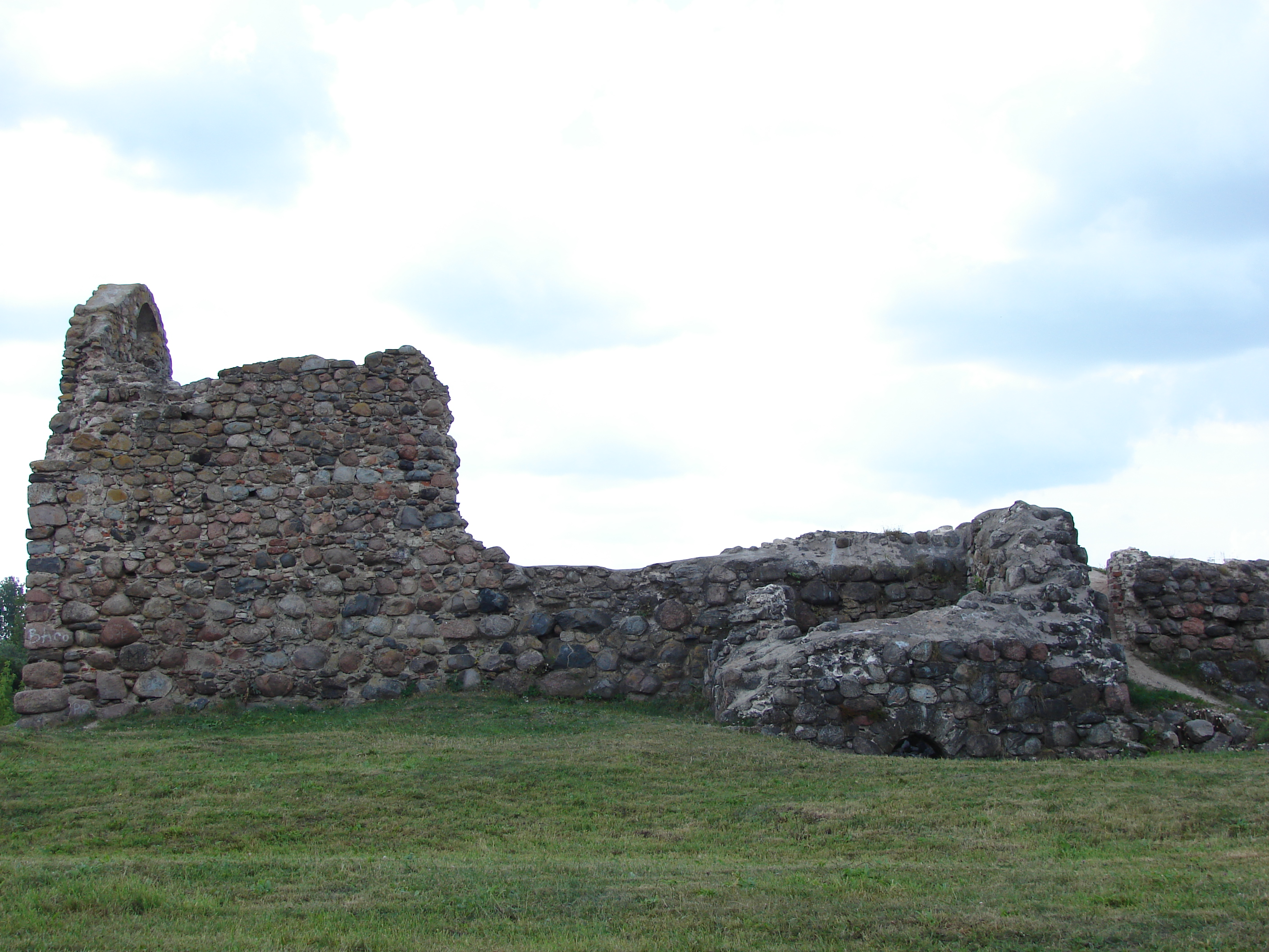 Rēzekne Castle ruinsLatviešu: Rēzeknes (Rositen) pils drupas (pirmo reizi rakstos minēta 1324.g.)